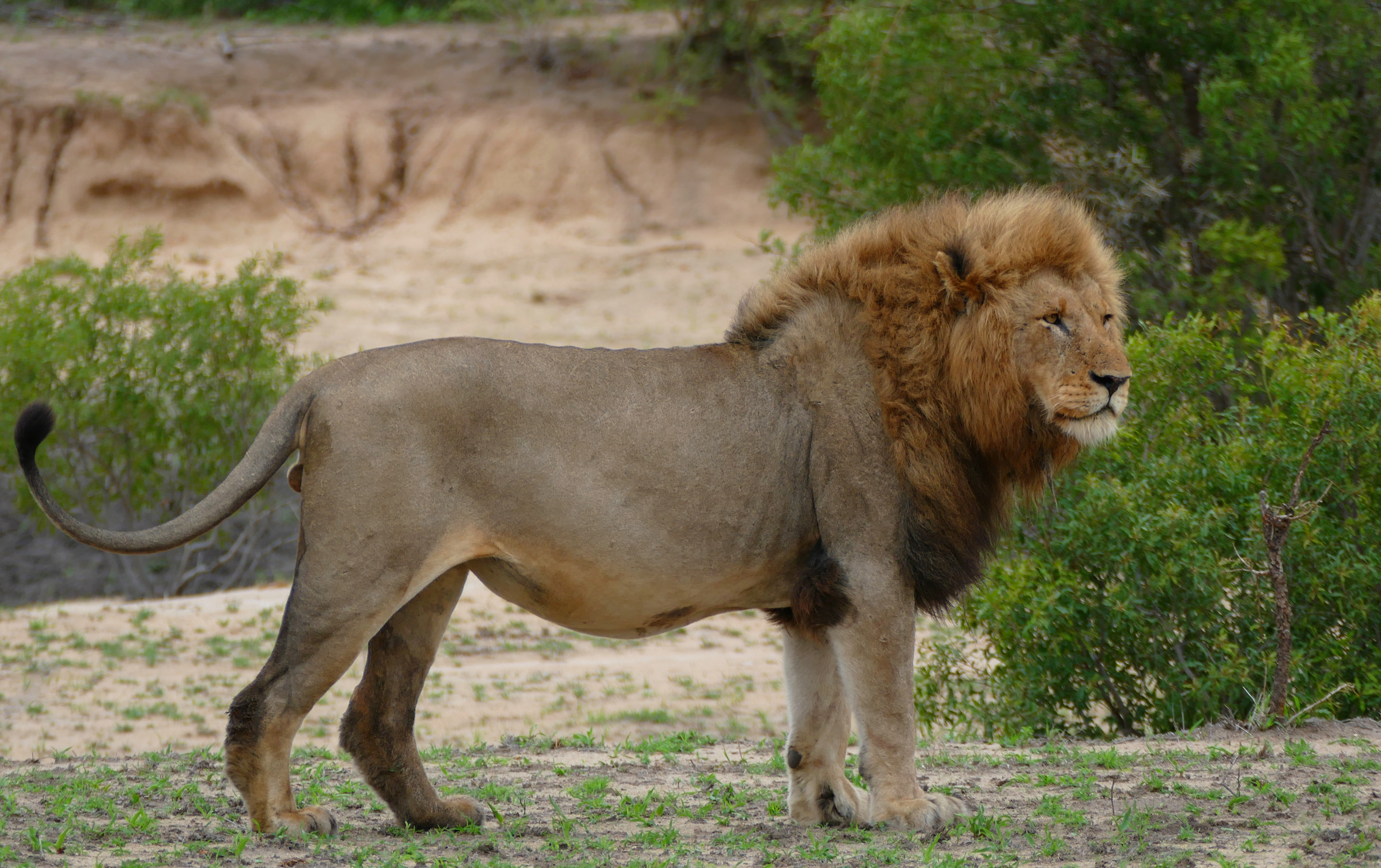 N'watindlopfu Waterhole, S84 Road East of Skukuza, Kruger NP, Mpumalanga, SOUTH AFRICA